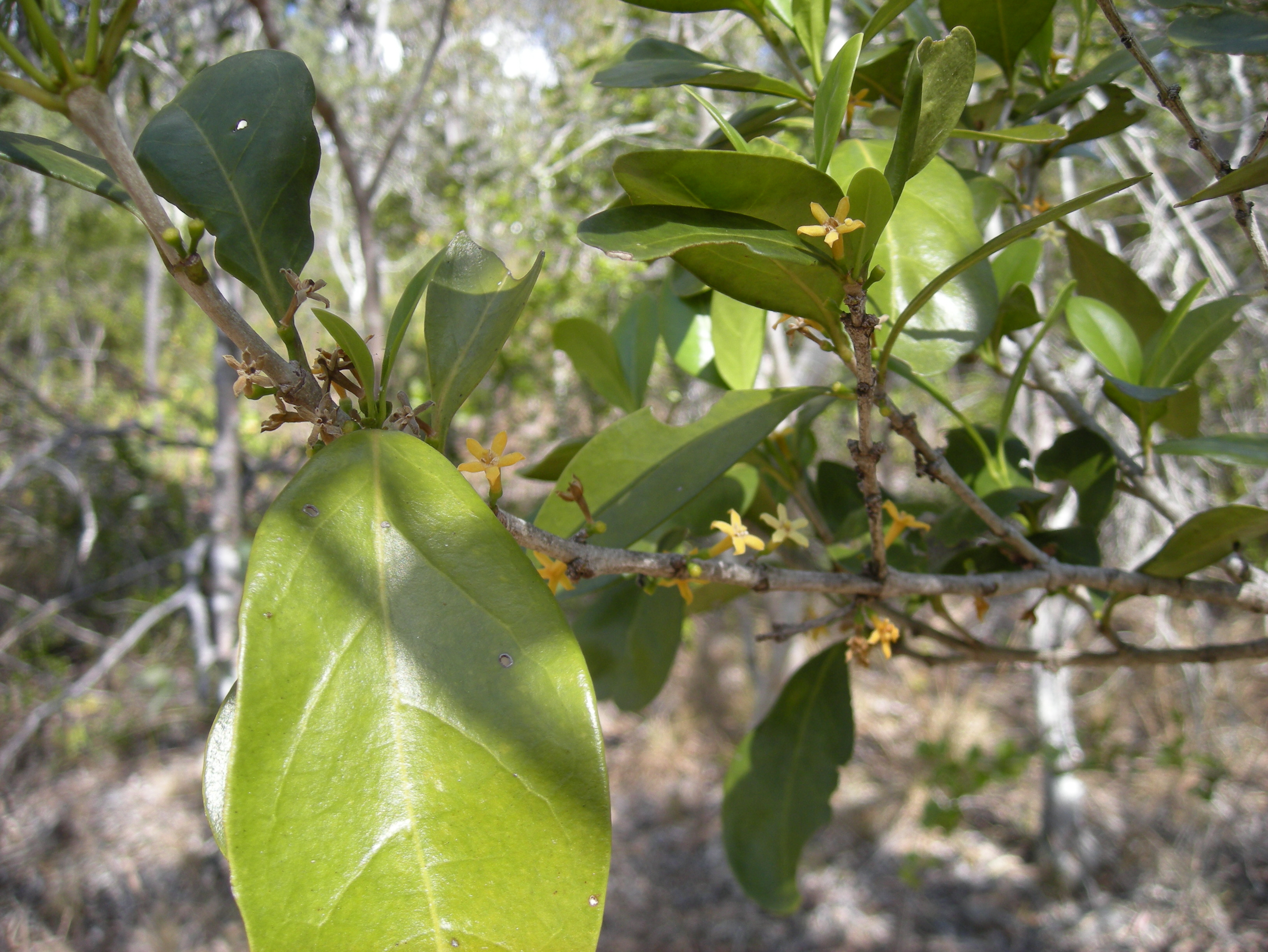 Canthium coprosmoides (Cyclophyllum coprosmoides foliage and flowers, Mount Archer National Park, Rockhampton